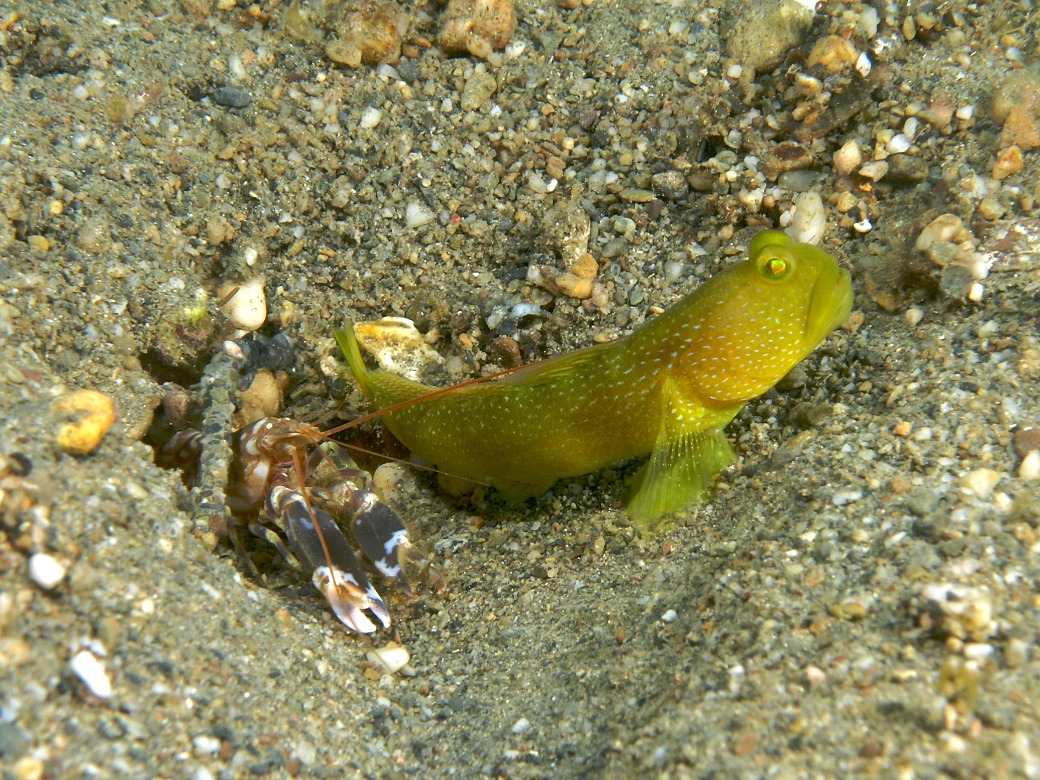 Alpheus bellulus (Snapping shrimp) with partner Cryptocentrus cinctus (Yellow shrimp goby). A symbiotic relationship where the blind shrimp digs the protective burrow and the keen eyed goby serves as lookout.